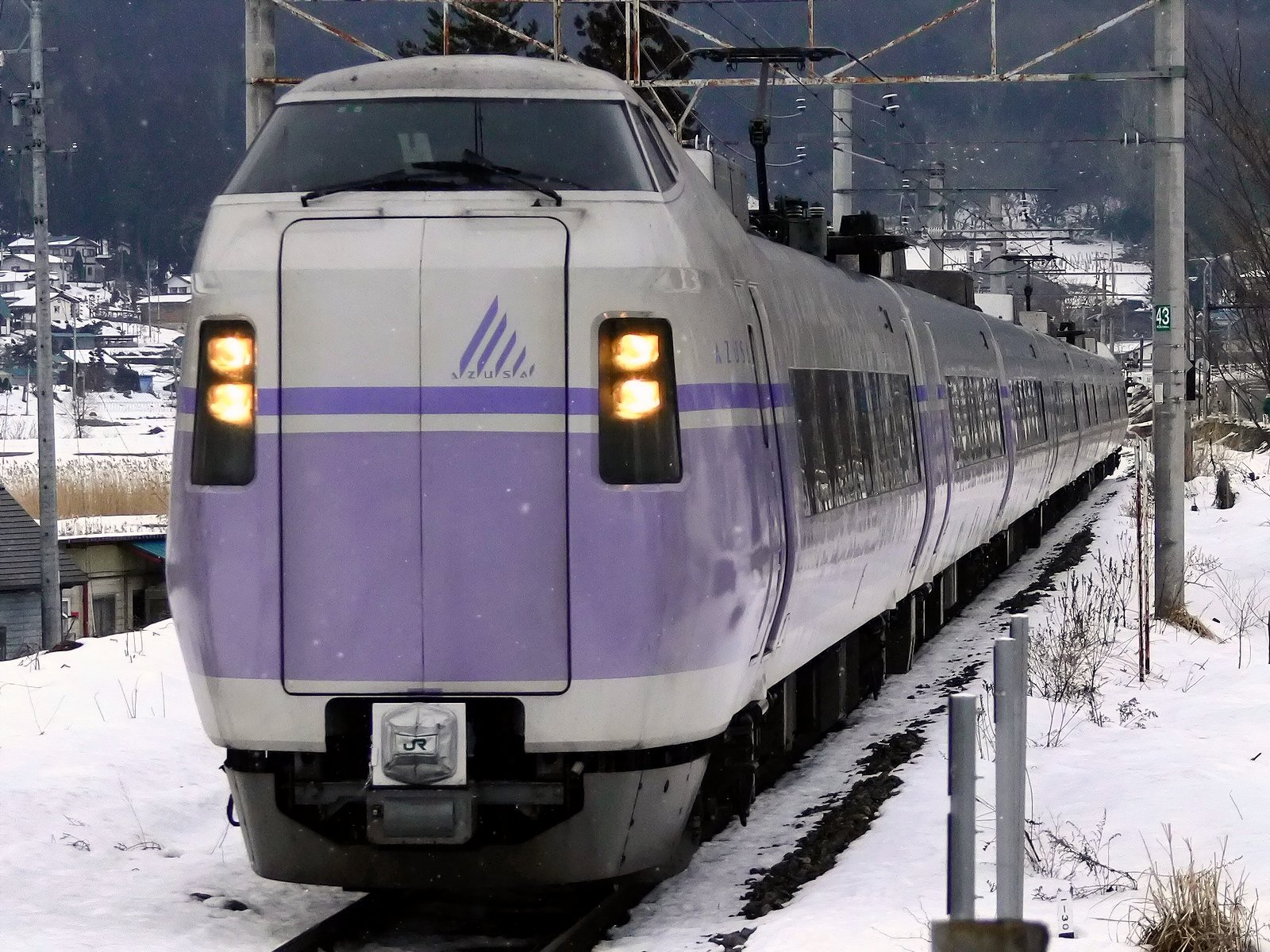 A JR East E351 series EMU with gangwayed cab car leading, near Uminokuchi Station